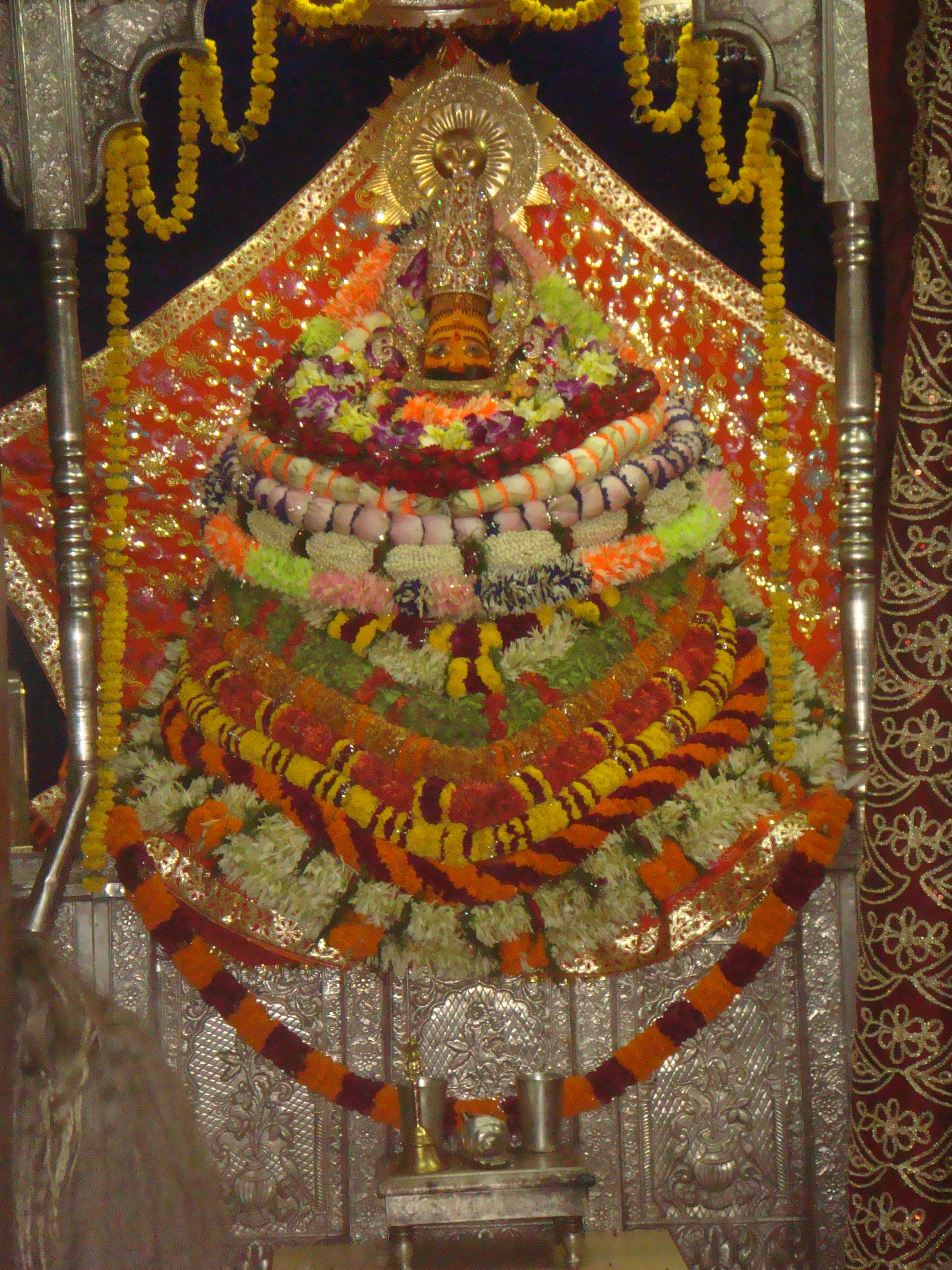 Idol of Baba Shyam on Jaljhoolani Ekadashi during Dak Nishan Pad Yatra 2009 from Kota to Khatushyamji